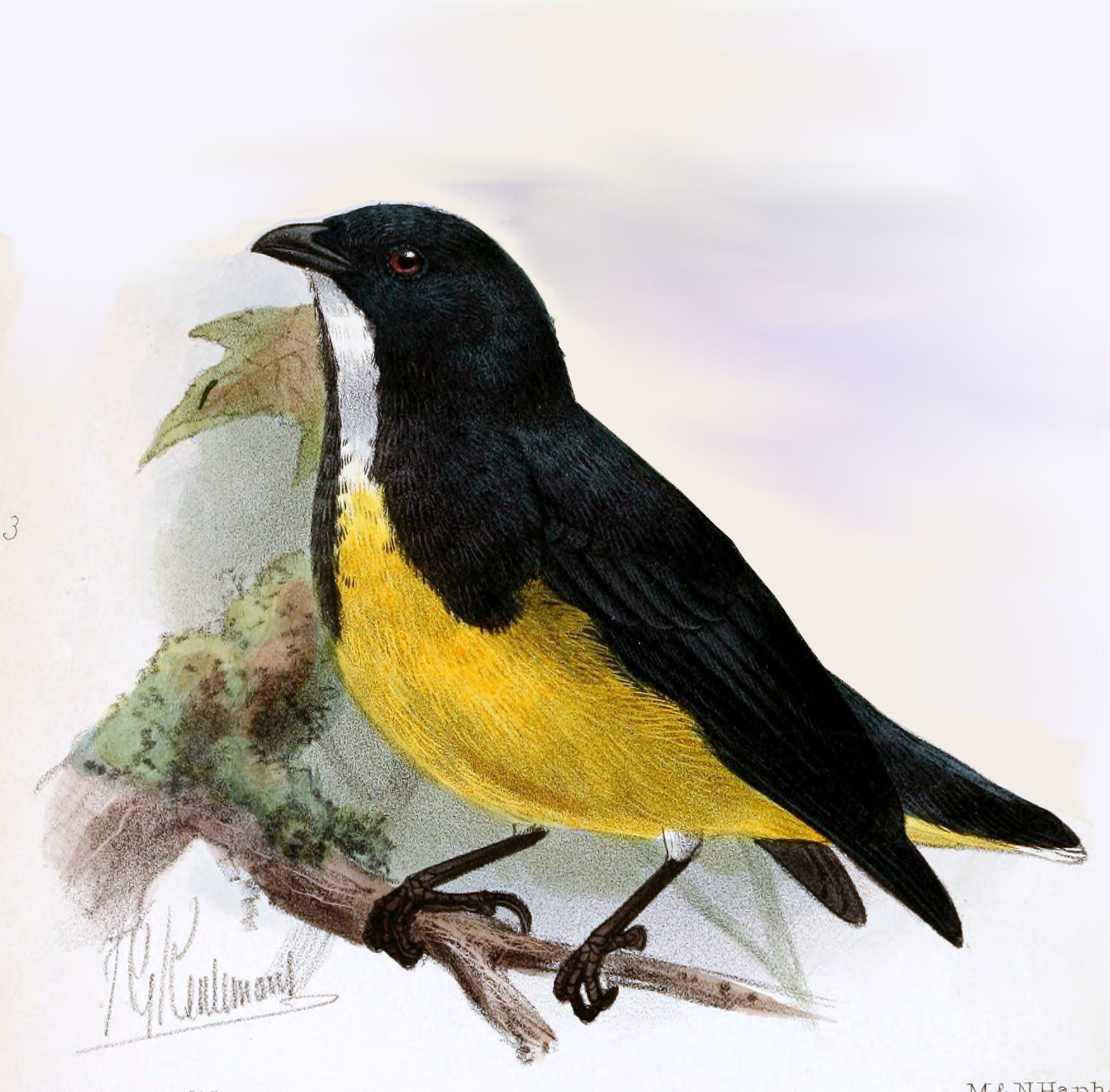 « Prionchilus melanoxanthus » = Dicaeum melanoxanthum (Yellow-bellied Flowerpecker)